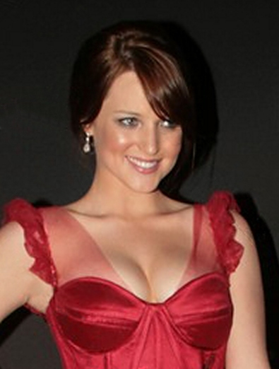 Australian actress Jordy Lucas at the 2012 Logie Awards at the Crown Casino, Melbourne.